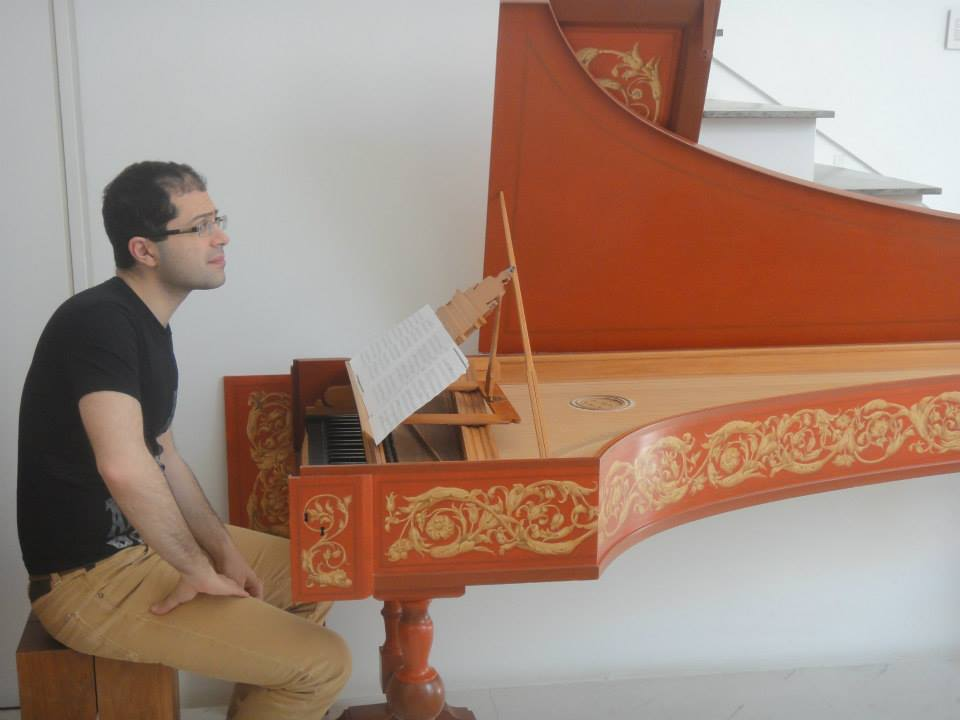 Mahan Esfahani at International Pharos Chamber Music Festival May 2014 The Shoe Factory, Nicosia, Cyprus